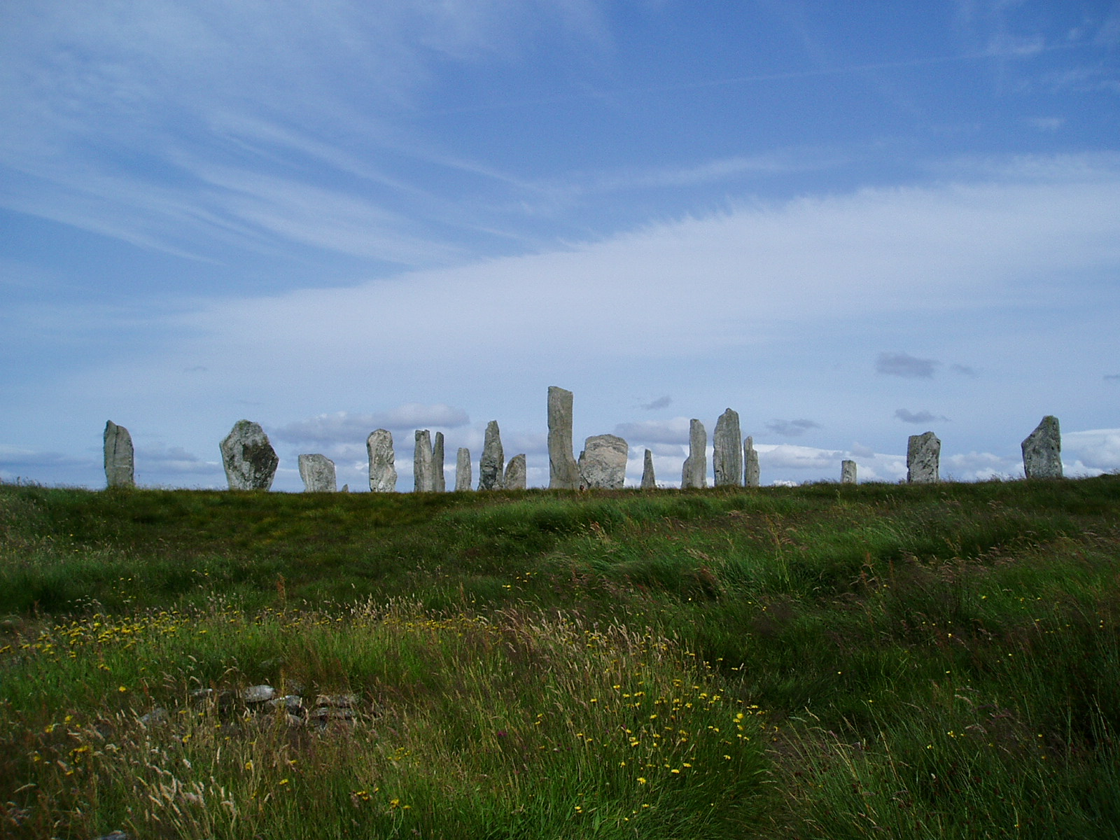 The standing stones of Callanish on the Isle of Lewis, Scotland.